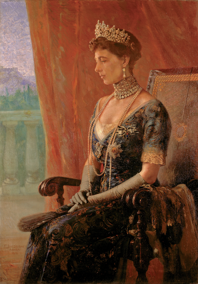 Portrait of Queen Sophia of Greece